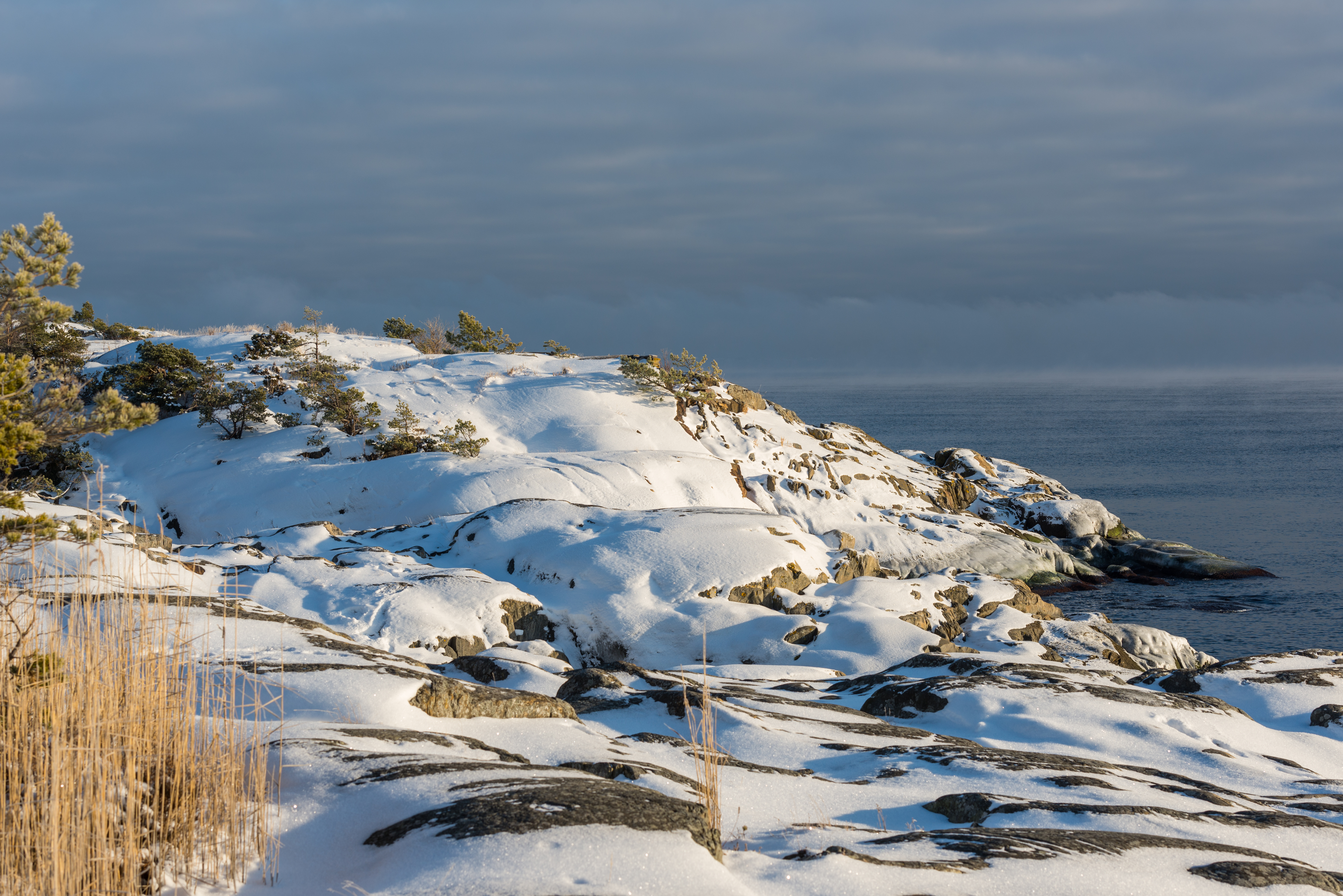 Utö, Haninge Municipality, Stockholm archipelago.